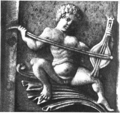 Byzantine, ivory casket c.1000 (from Museo Nazionale, Coll. Carrand, No.26) Kindly donated by Author of